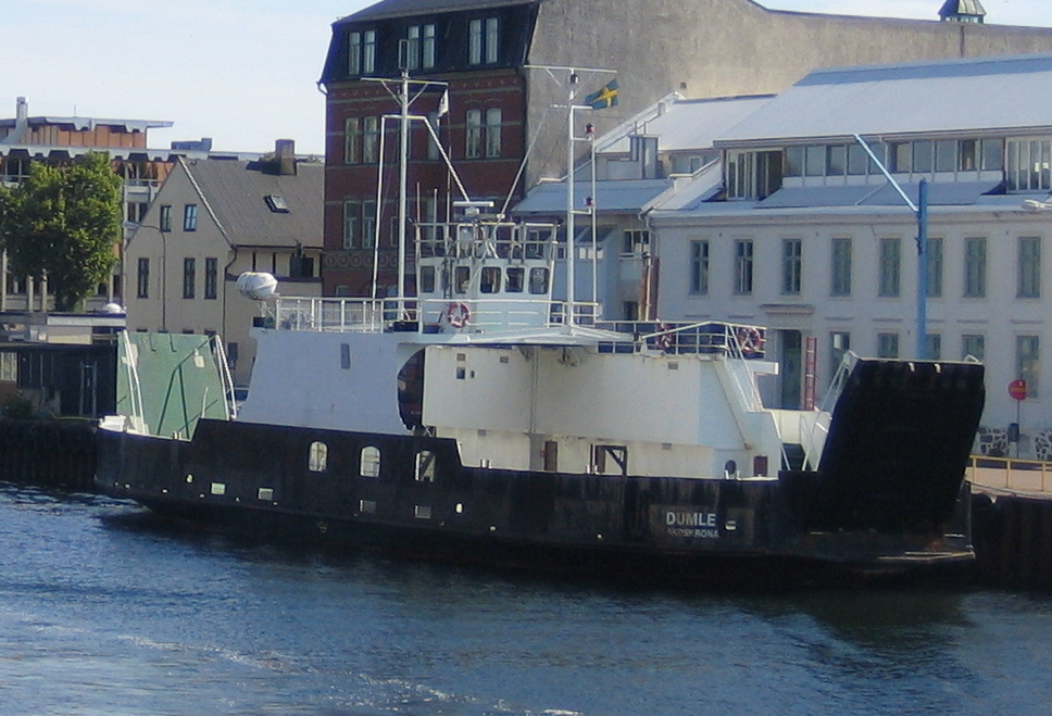 MS Dumle in Landskrona Harbour